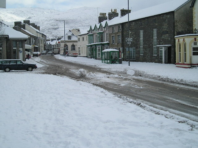 Blaenau Ffestiniog in the snow. Early spring in Snowdonia